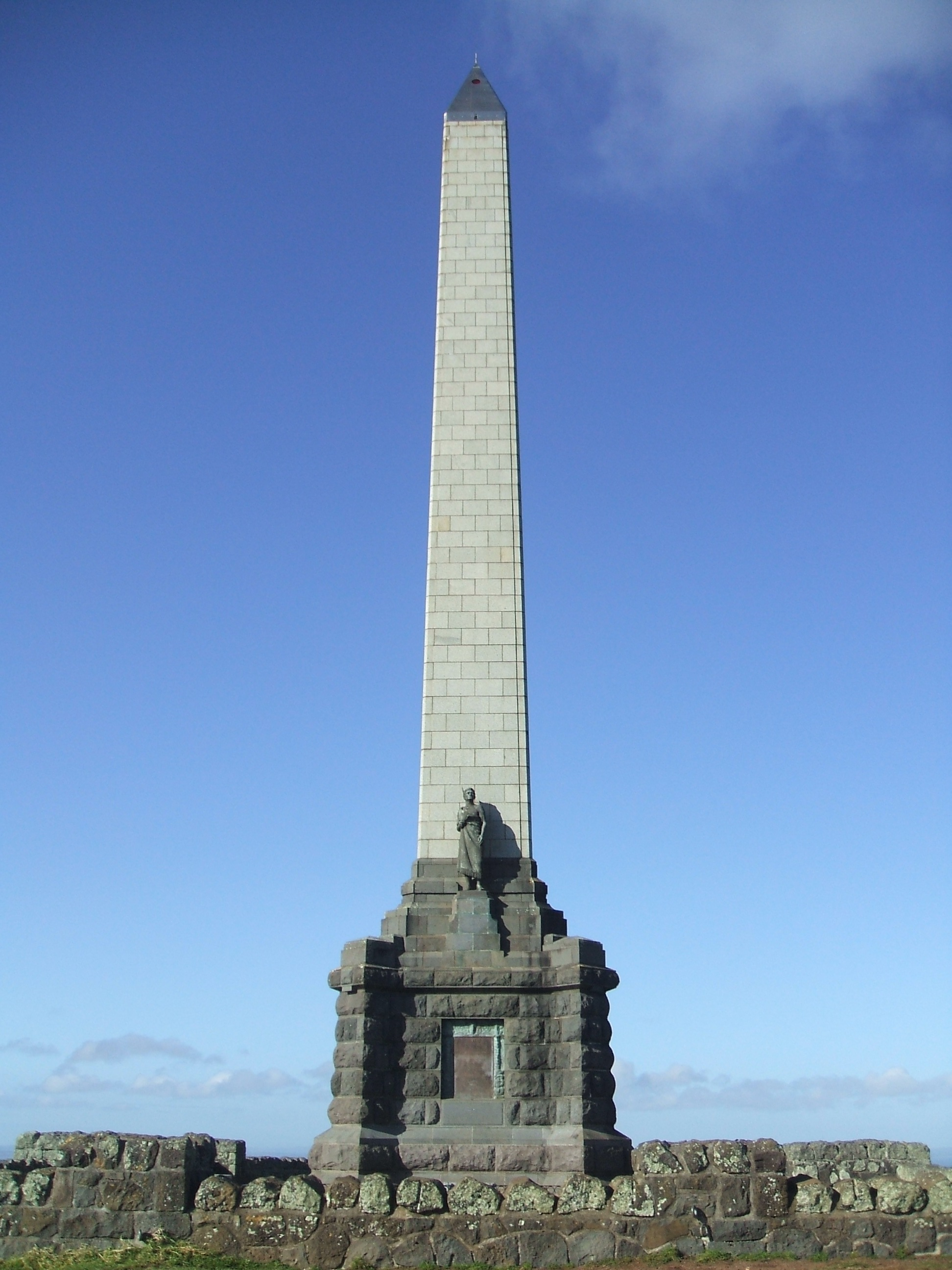 Obelisk at the Top of One Tree Hill, Auckland, New Zealand. New Zealand Historic Places Trust Register number: 4601.